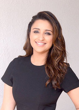 Parineeti Chopra at a promotional event for Golmaal Again